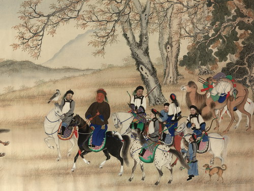 Sengge Rinchen 1811-65